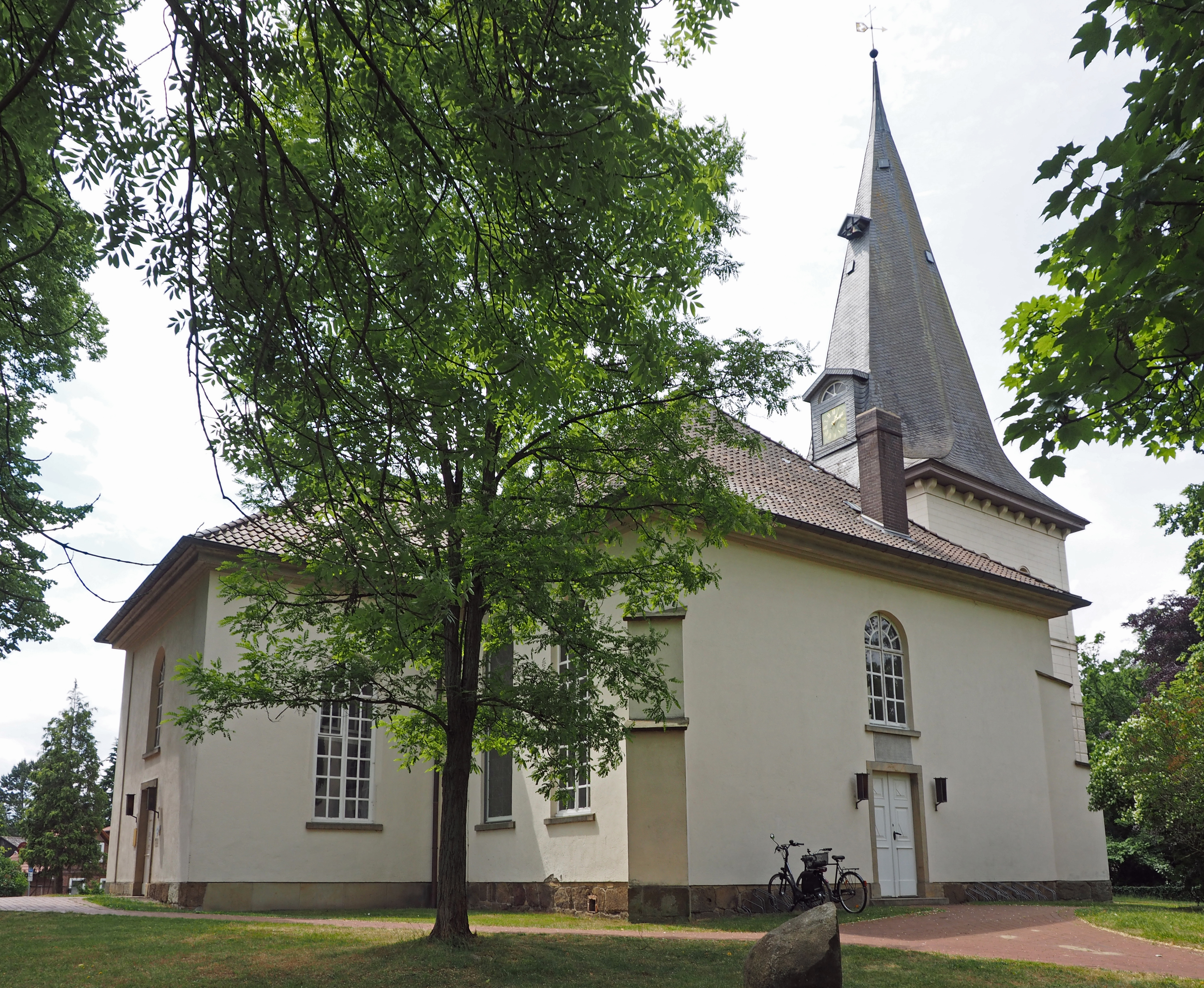 Church of St John the Baptist, Winsen (Aller), Lower Saxony, Germany